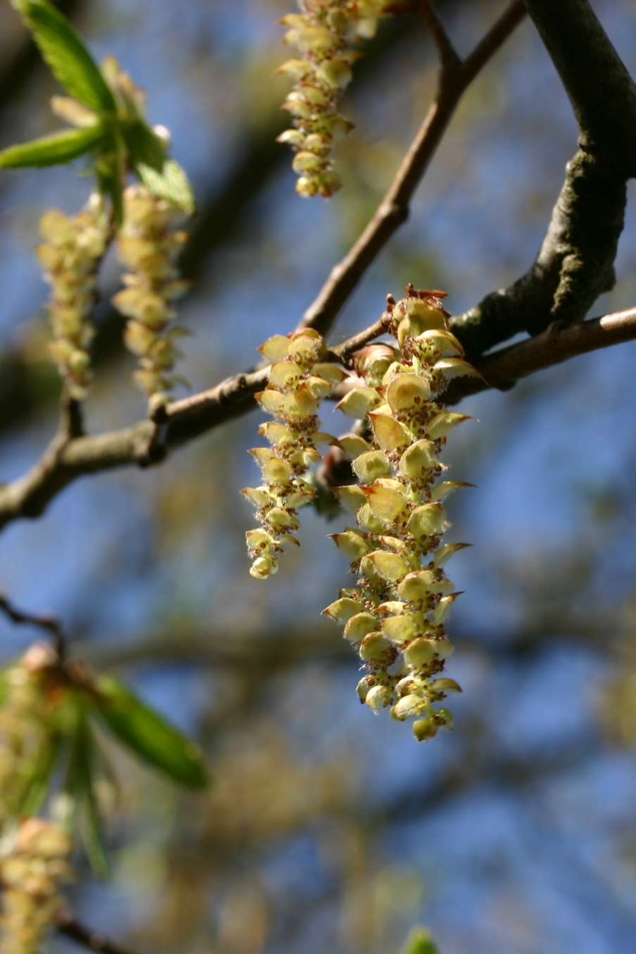 Carpinus betulus: Male catkins.